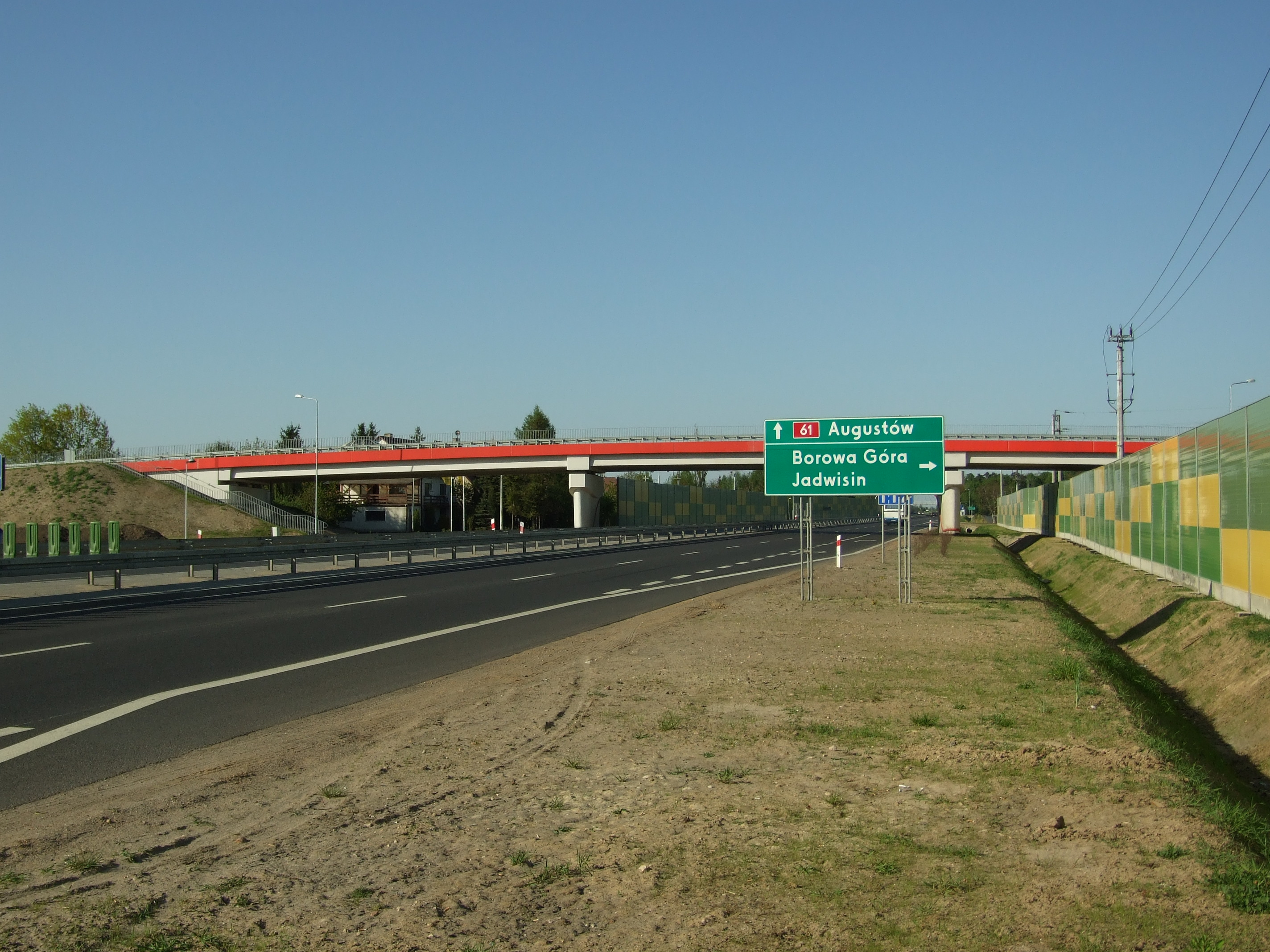 Jadwisin highway exit, Mazowskie, PLhelp